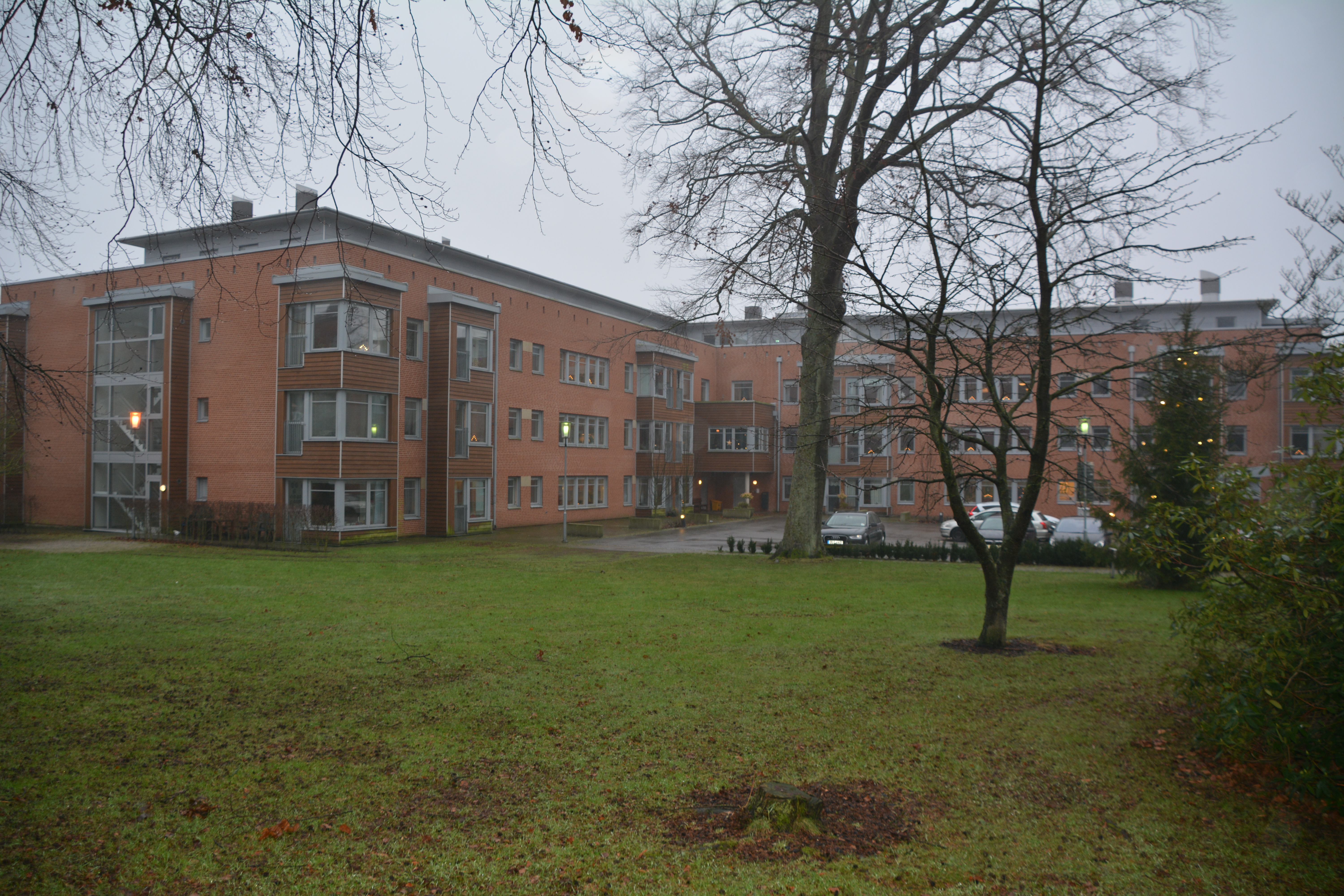 Nya Ribbingska sjukhemmet, Lund